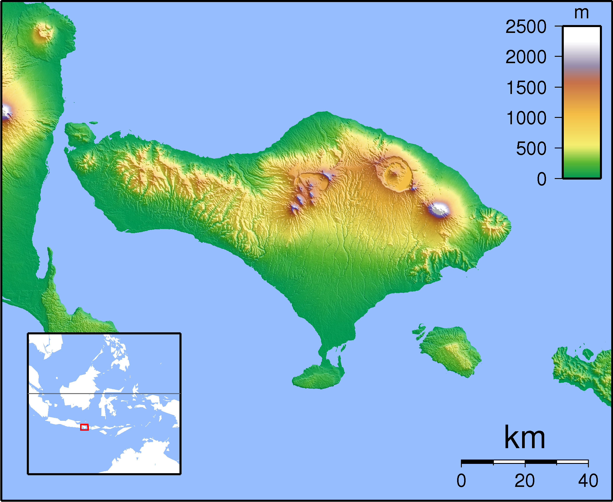 Location map for Bali. Created with GMT from SRTM data. Left: 114.25, Right: 116, Top:-7.75, Bottom:-9.1666666